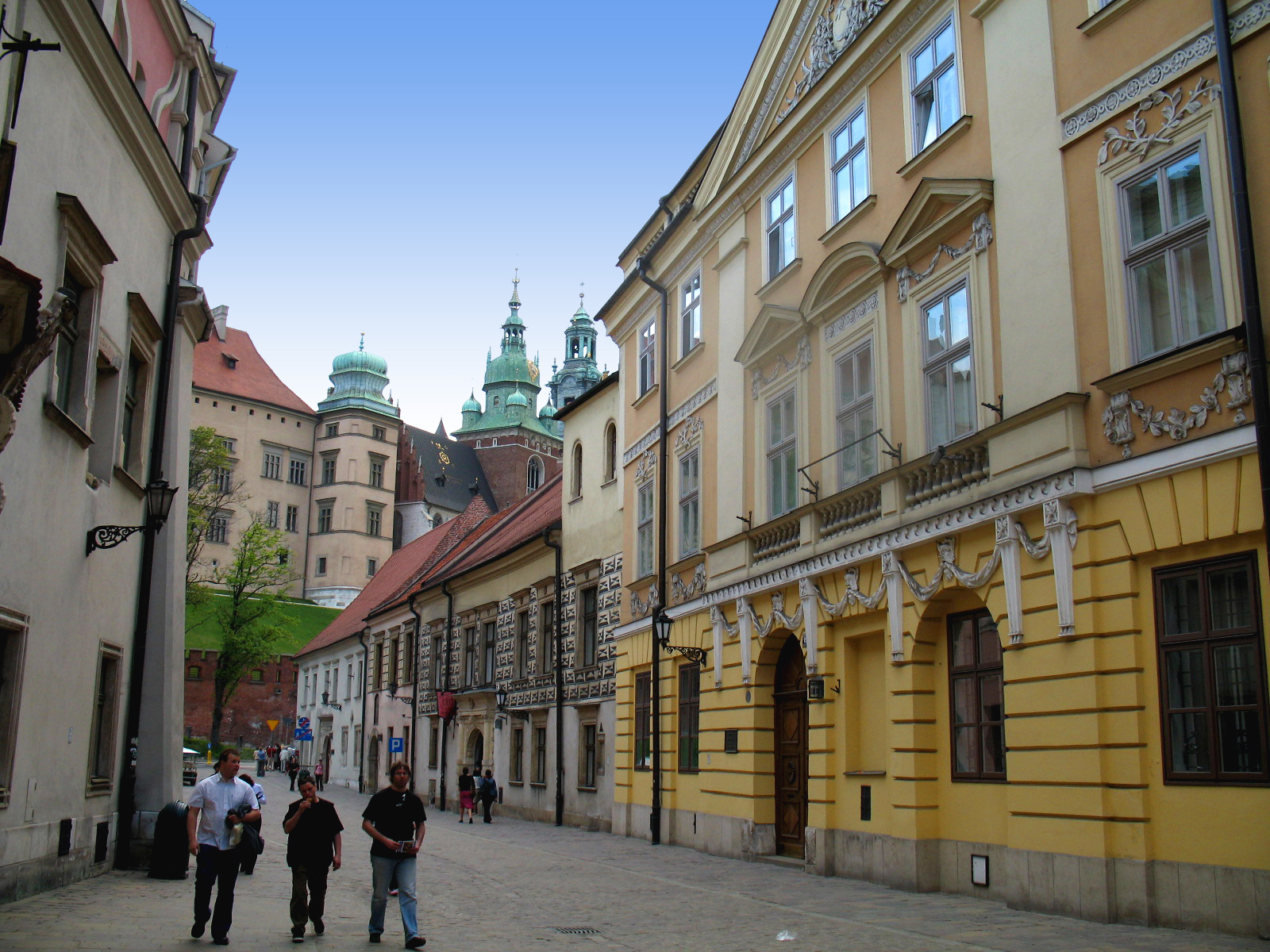 Kanonicza Street in Kraków, the Wawel Castle in the background